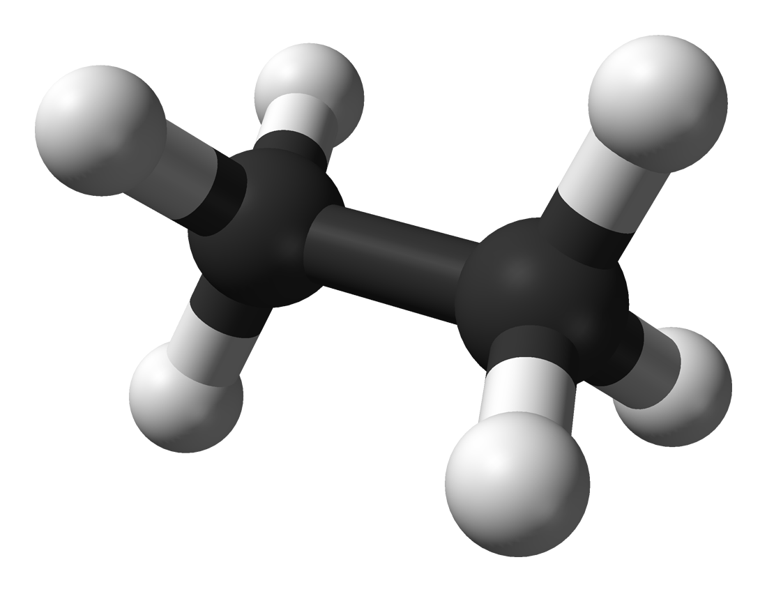 Ball-and-stick model of the ethane molecule, C2H6. Structure calculated in Spartan '04 Student Edition using Hartree-Fock/6-31G*. Image generated in Accelrys DS Visualizer.